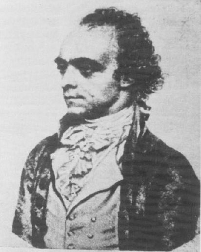 Michael Topping was a sailor-astronomer instrumental in setting up the Madras Observatory in Chennai in India in 1794.